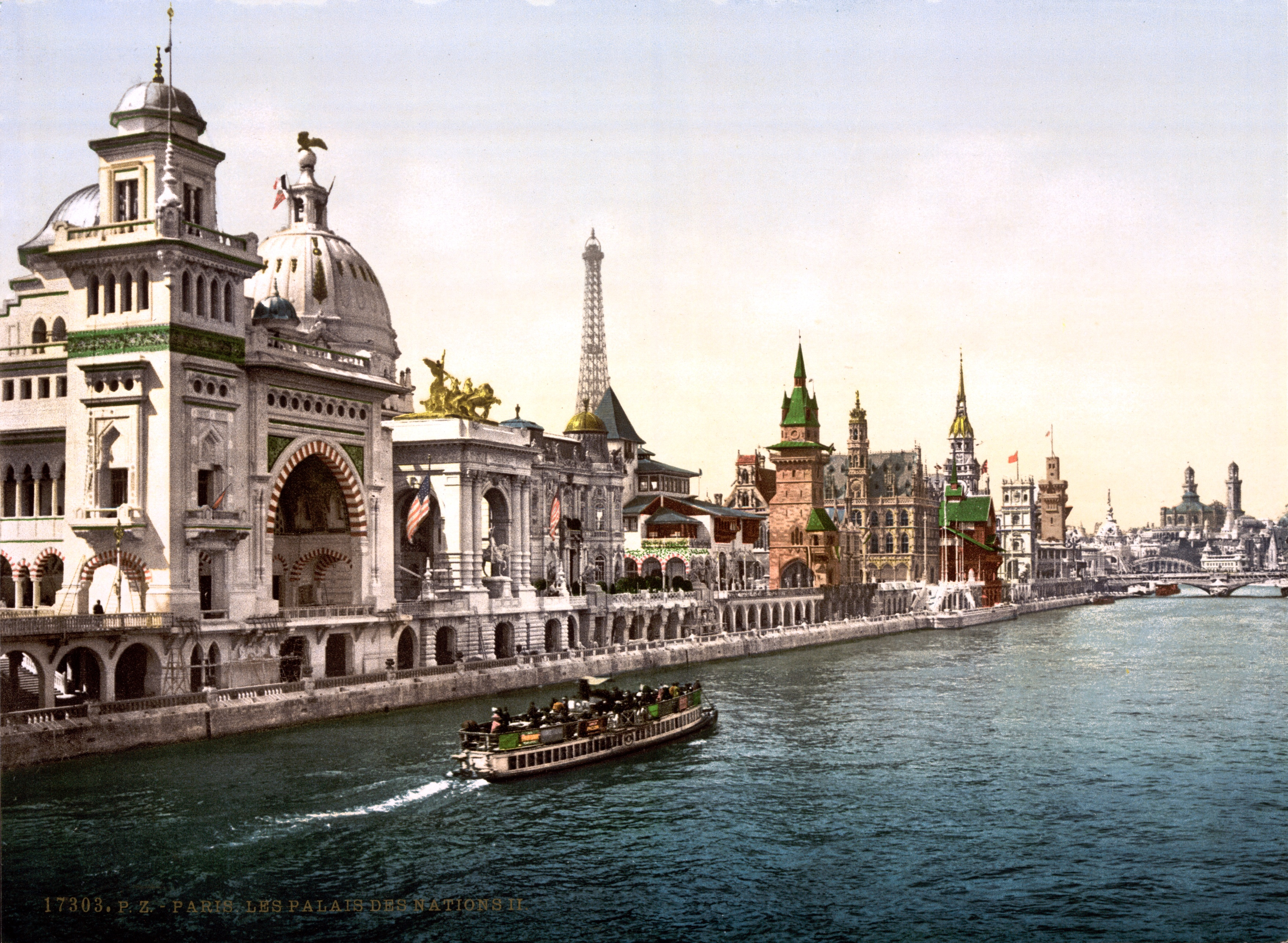 The Pavilions of the Nations, II, Exposition Universal, 1900, Paris, France